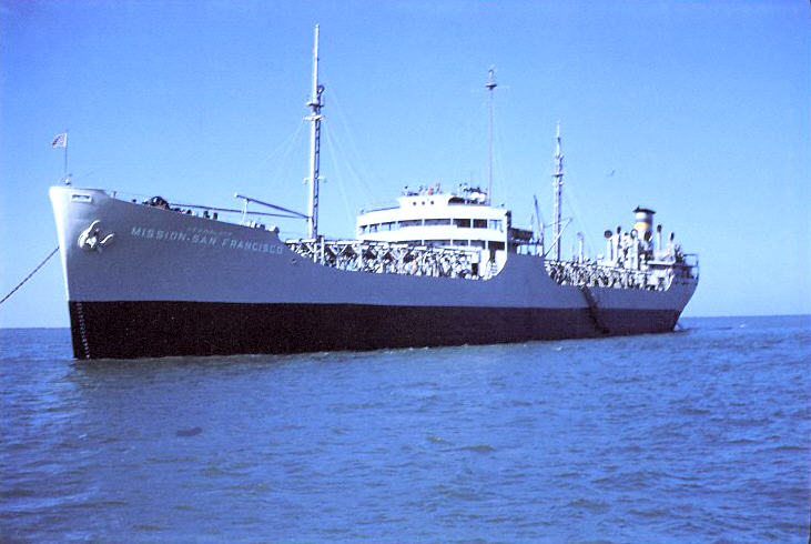 Mission San Francisco (T-AO-123), US Navy photo by Dr. Don Smith, Radio Electronics Officer. img URL